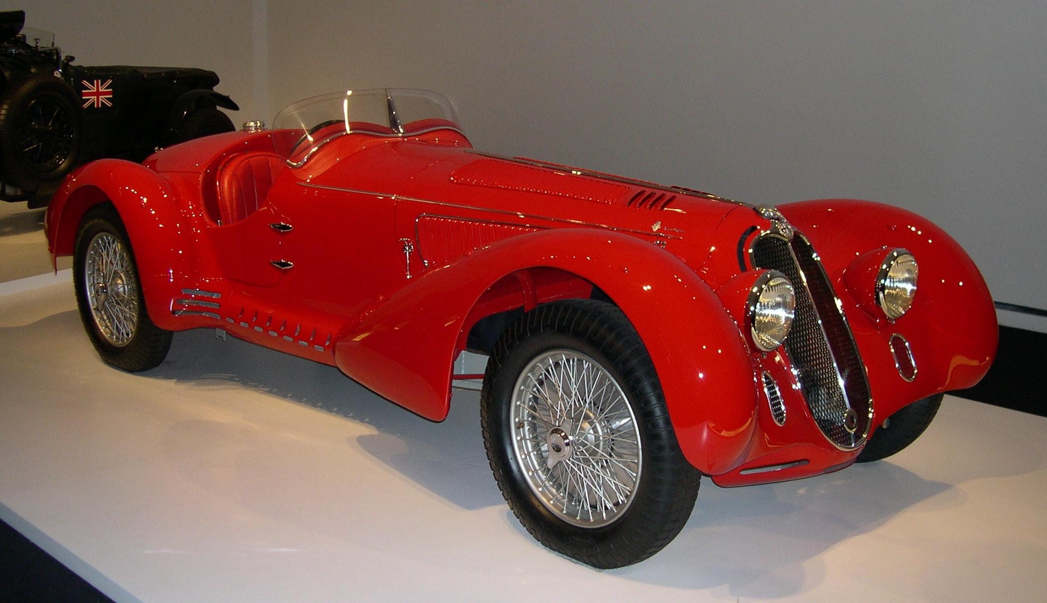 1938 Alfa Romeo 8C 2900 Mille Miglia, From the Ralph Lauren collection on display at the Boston Museum of Fine Arts. Photo taken in 2005.